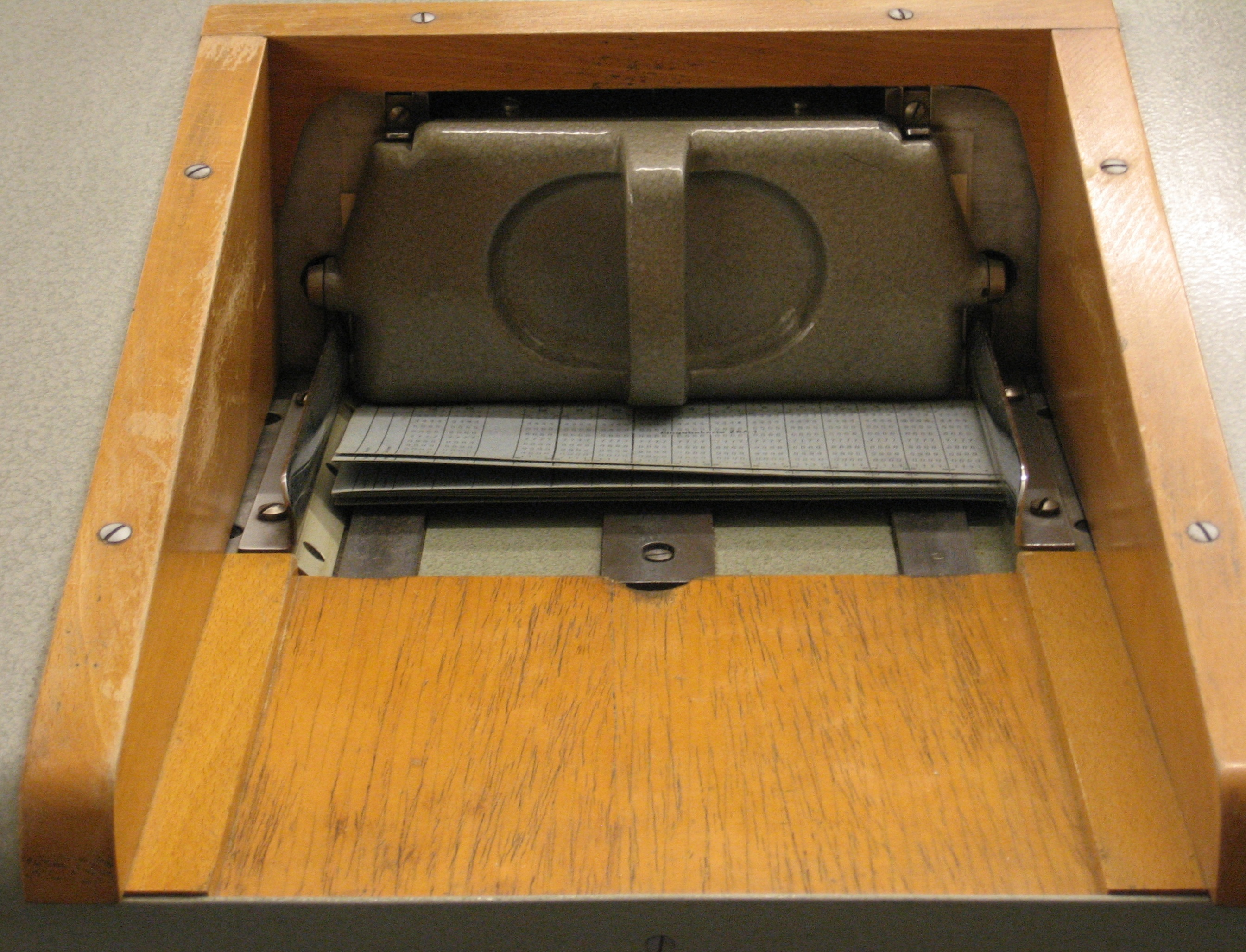 Punchcard input of the ZRA 1